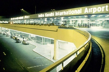 Indira Gandhi International Airport, India